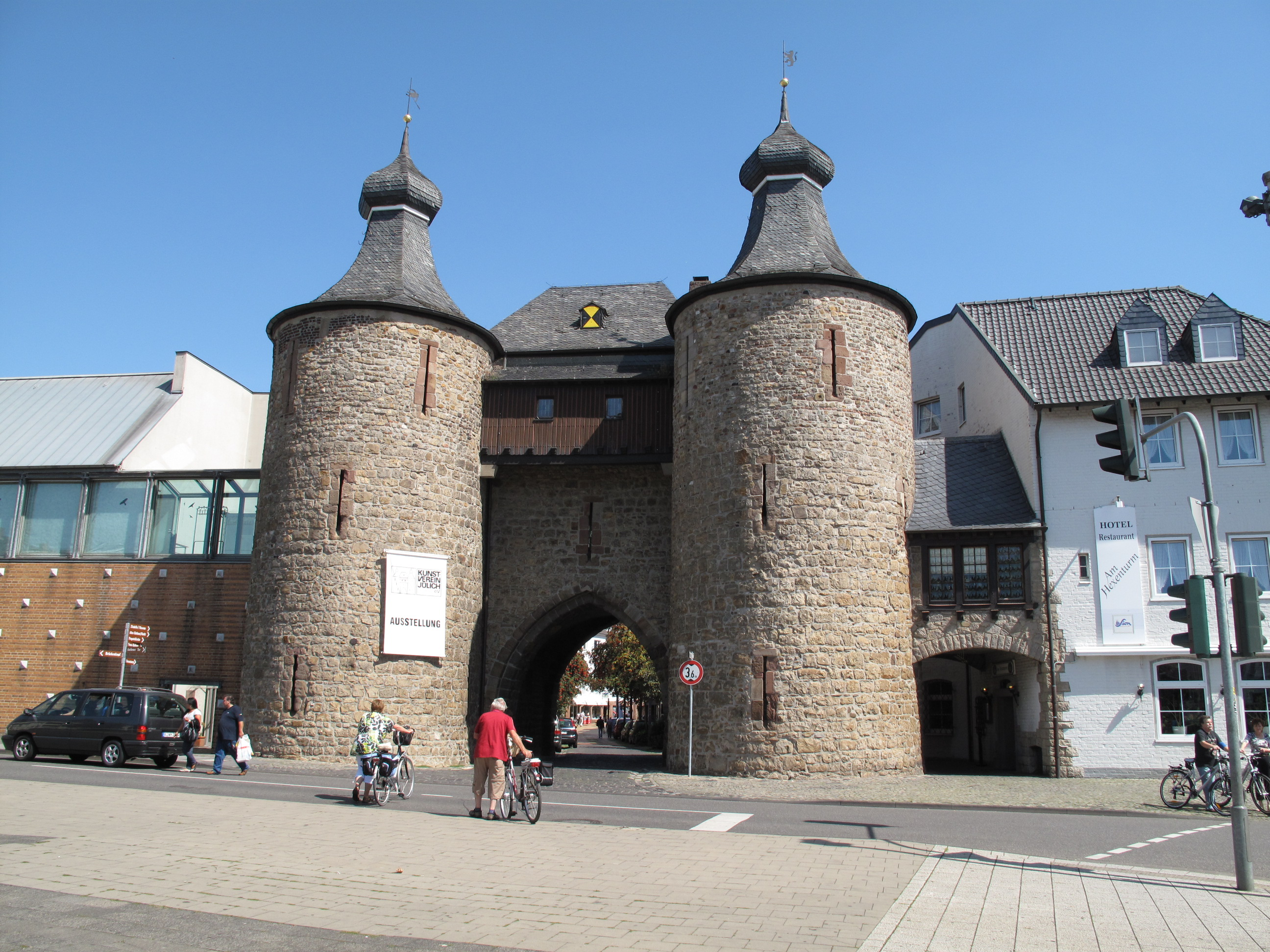 Jülich, Hexenturm